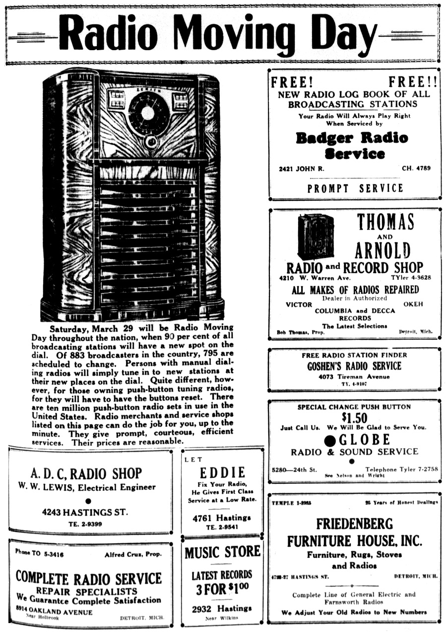 On March 29, 1941, under the provisions of the North American Regional Broadcasting Agreement, most of the radio stations in the United States moved to new transmitting frequencies. Advertisements like these offered services to reset customer's mechanical pushbuttons on their console radio receivers.